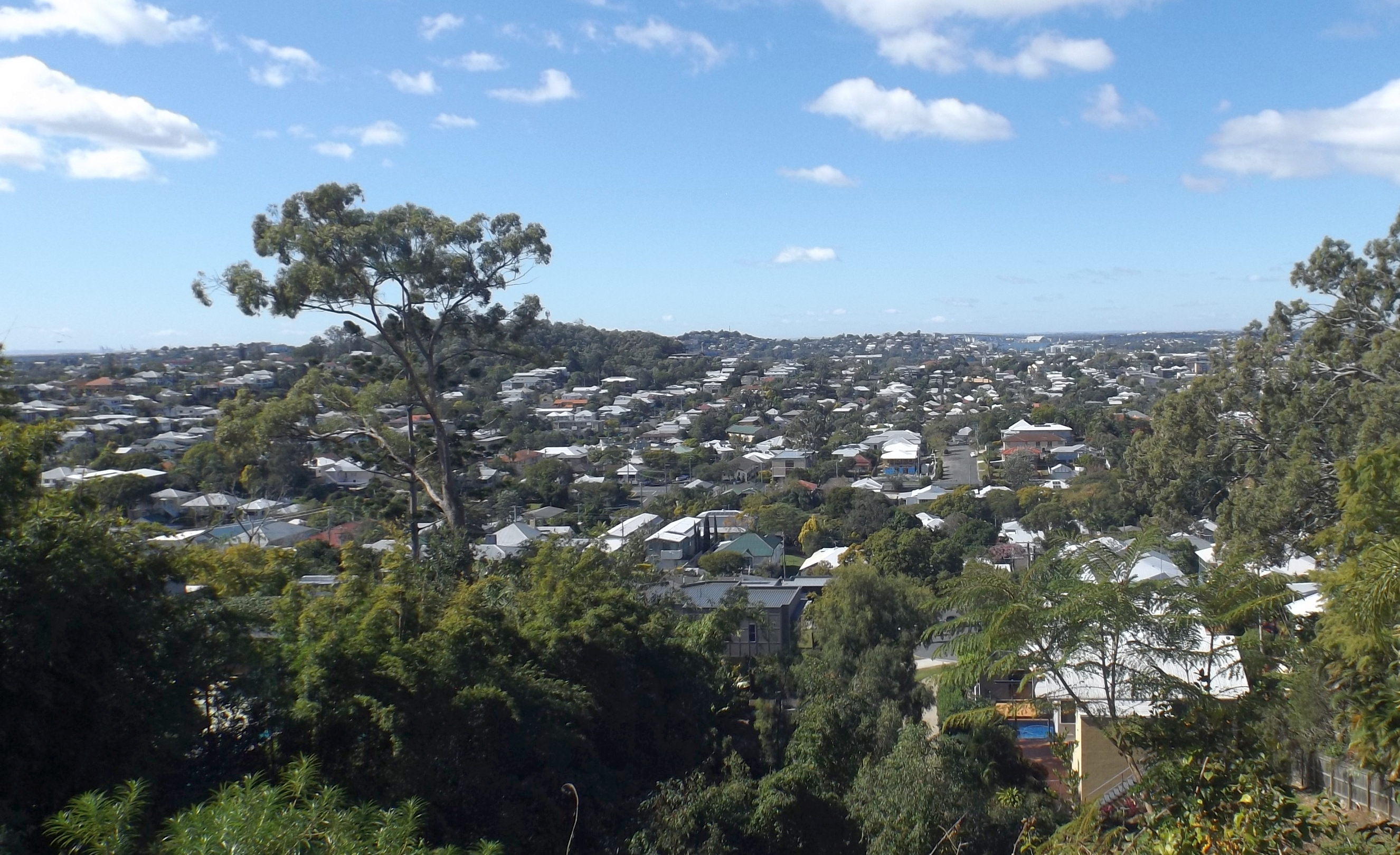 View eastwards from Watson Street, Wilston, Brisbane, Queensland, Australia.